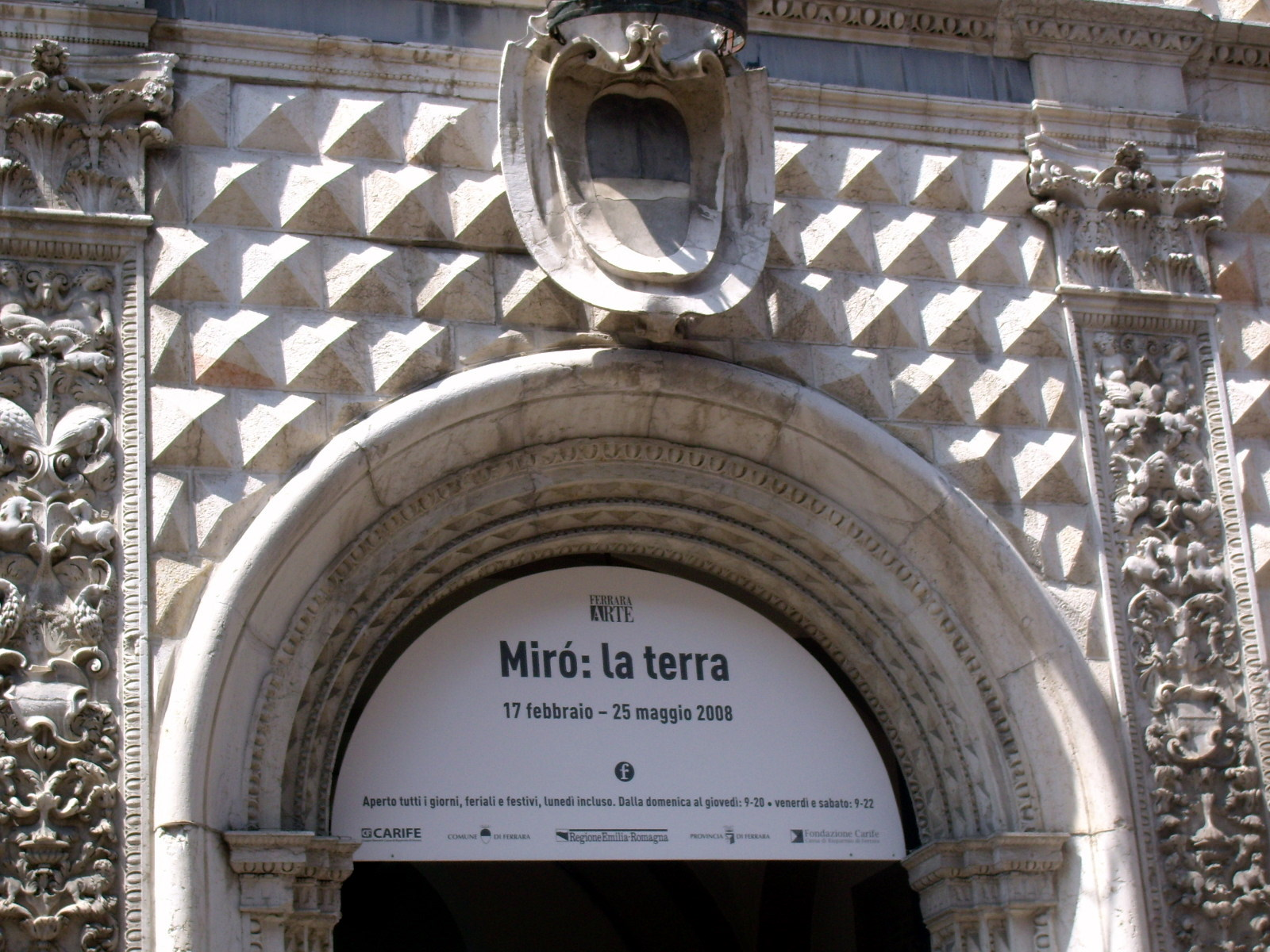 Ferrara - Main entrance of the Palace of Diamonds.